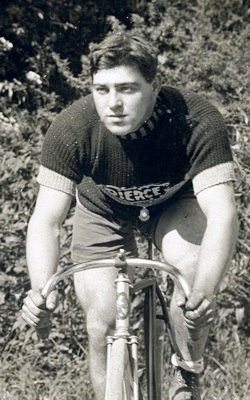 Carl Schutte, US-american bicyclists, competitor at the 1912 Olympic games